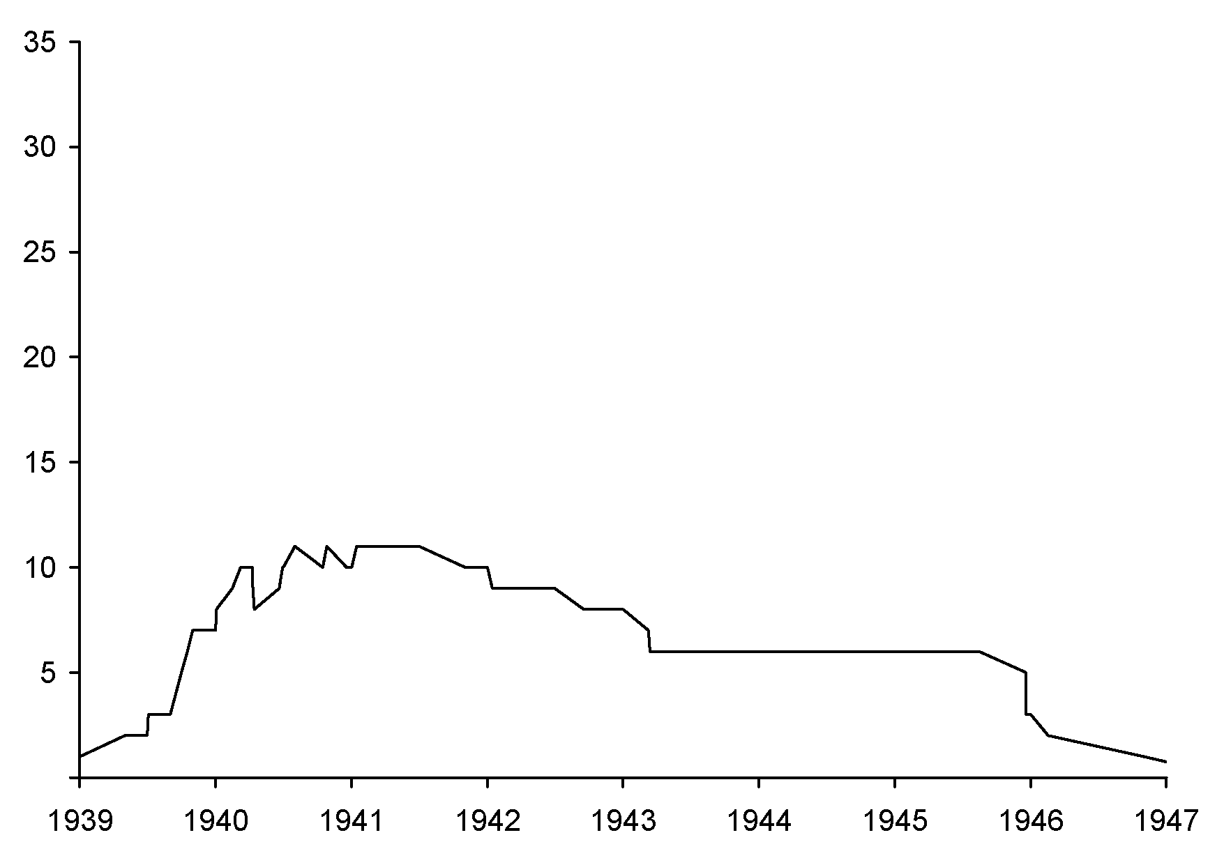 diagram about the amount of british Triton-class-submarines in Service